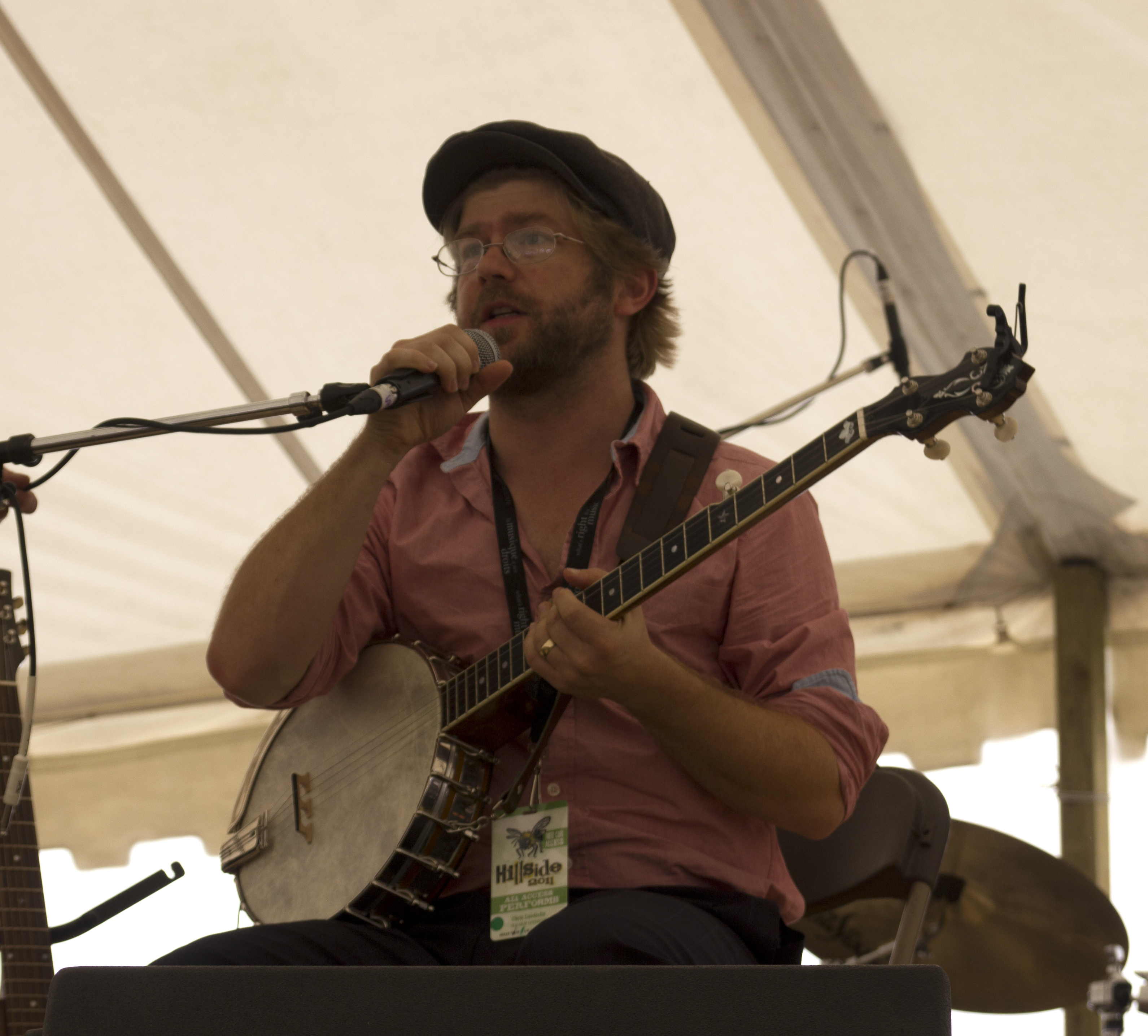 Old Man Luedecke performing at the 2011 Hillside Festival in Guelph